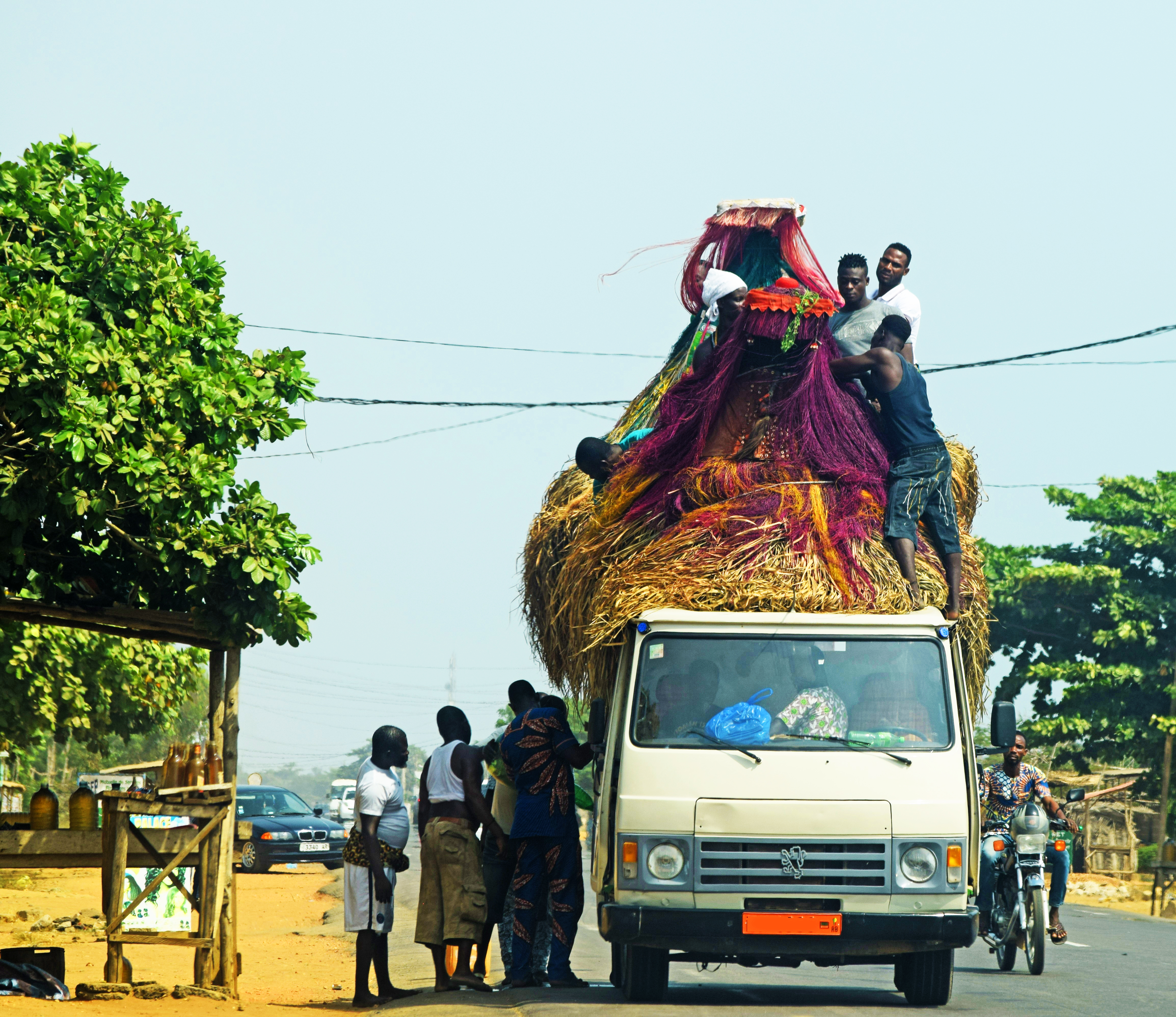 The Zangbeto, guardian of the night is part of Benin's religious heritage. During the national festival of endogenous religions in Benin, the Zangbeto goes out during the day for mysterious and very impressive demonstrations! Sometimes, the Zangbeto convent is so far away from the place of the demonstrations that modern means of transport have to be used. This is the case here with this mini bus with Zangbeto and his initiates' outfit. They marked a pose to load the tank. In other circumstances, the Zangbeto has the magical powers to make this vehicle run, even without a drop of fuel ... But beware, Zangbeto is not about exhibitionism! Photo taken on the interstate road Cotonou Lomé, towards Grand-Popo. Translated with (free version)